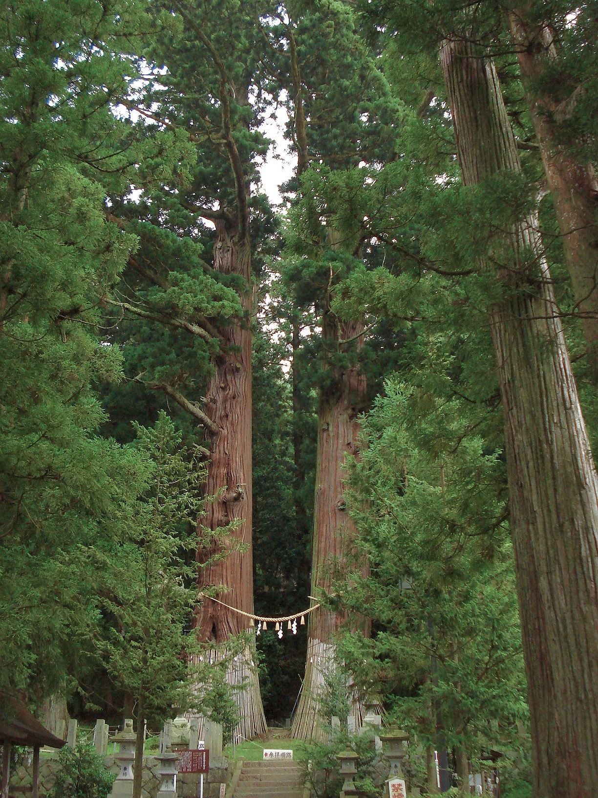 This twin cryptomeria, Jiji-sugi(right) ande Baba-sugi(left), is specified for the Natural Monument in Japan in Ono Town, Fukushima Prefecture, Japan.